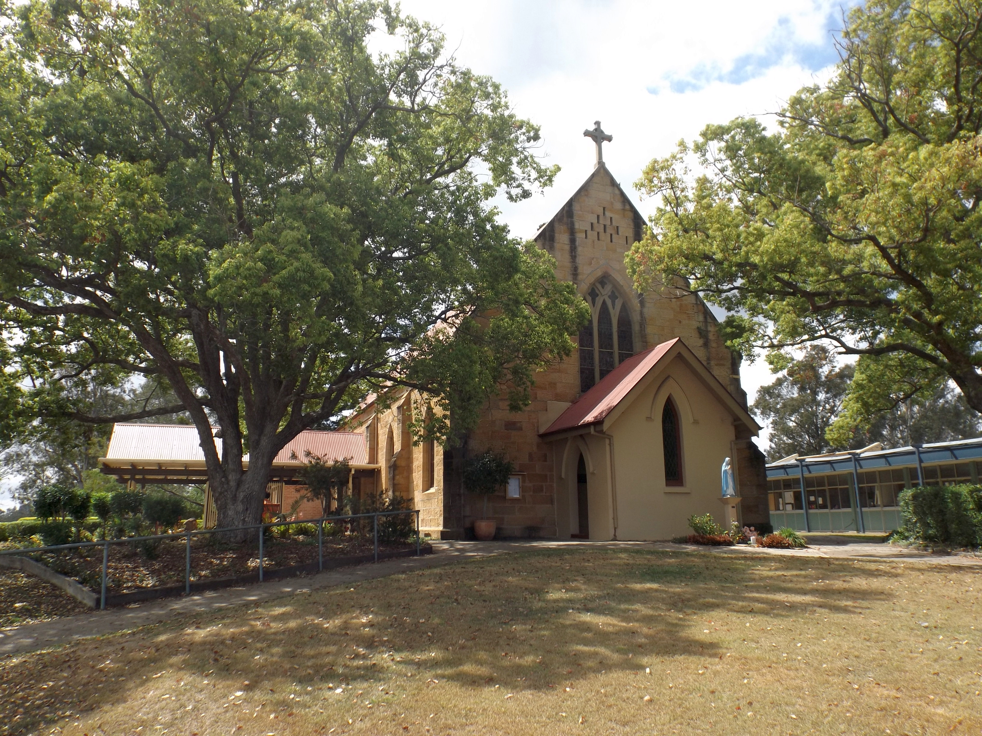 Photo of St Francis Xavier Church at Goodna, Ipswich, Queensland, Australia.